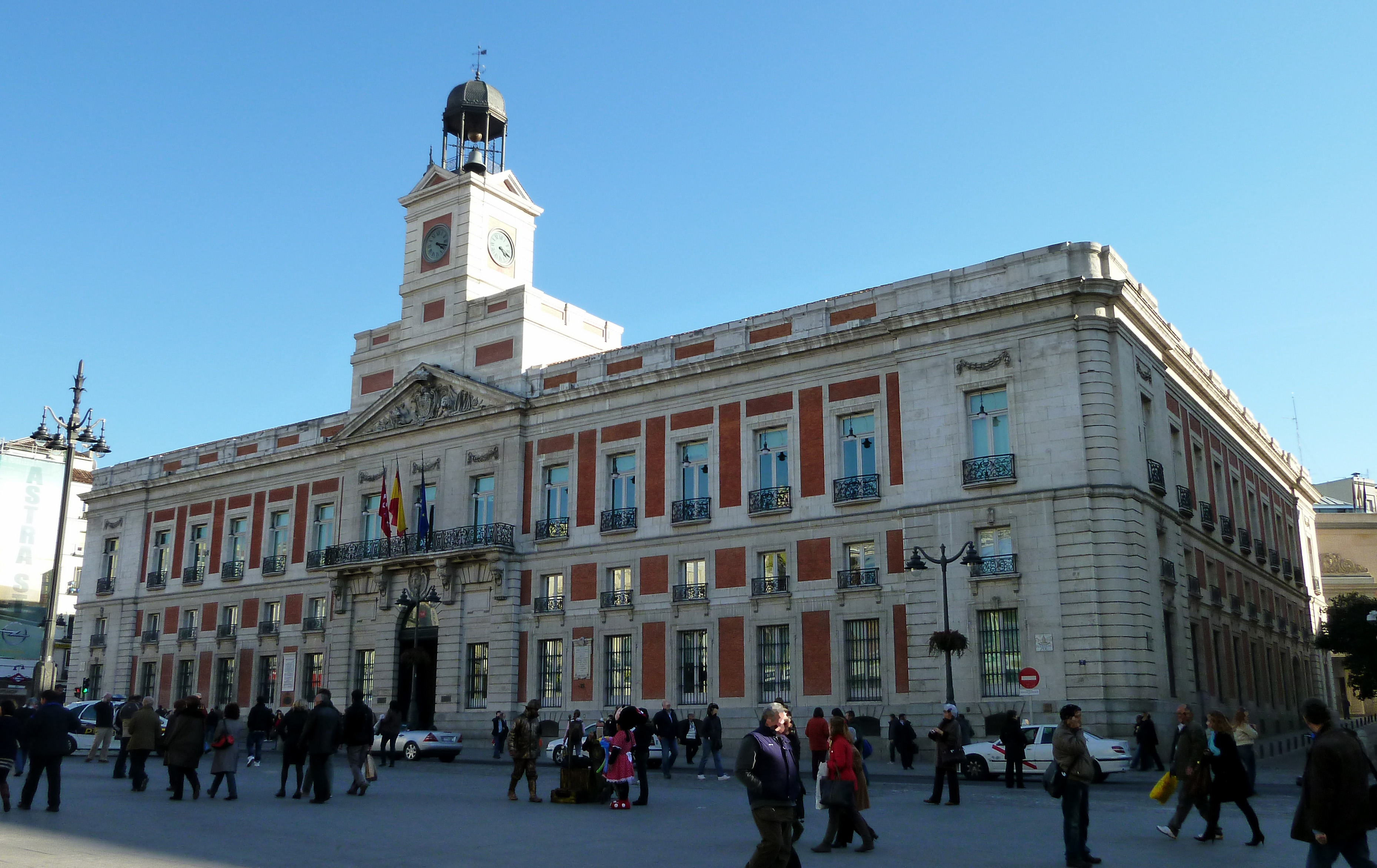 View of Real Casa de Correos in Madrid (Spain) from the north-west angle.